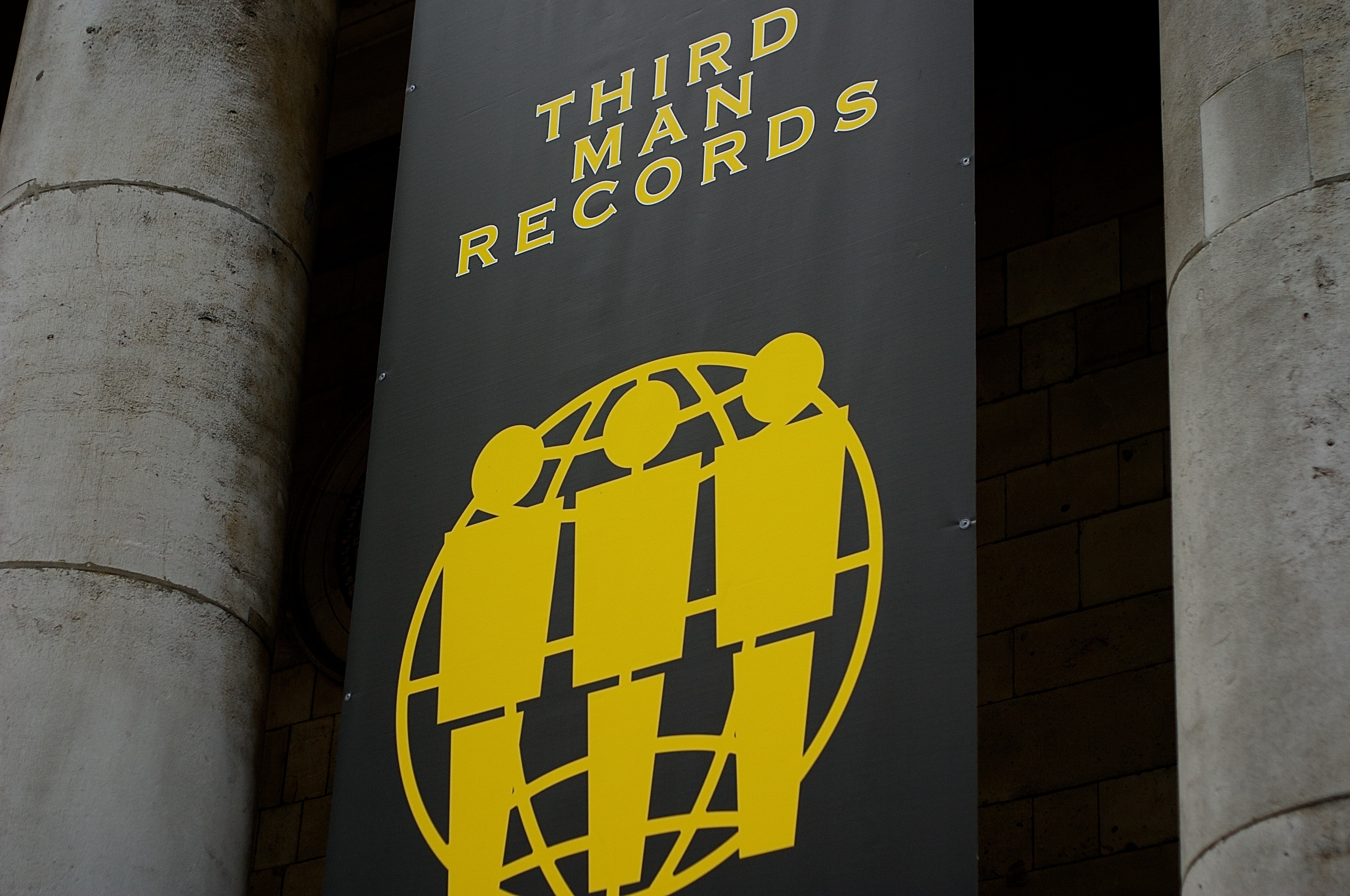 Shoreditch Church, 31st October 2009